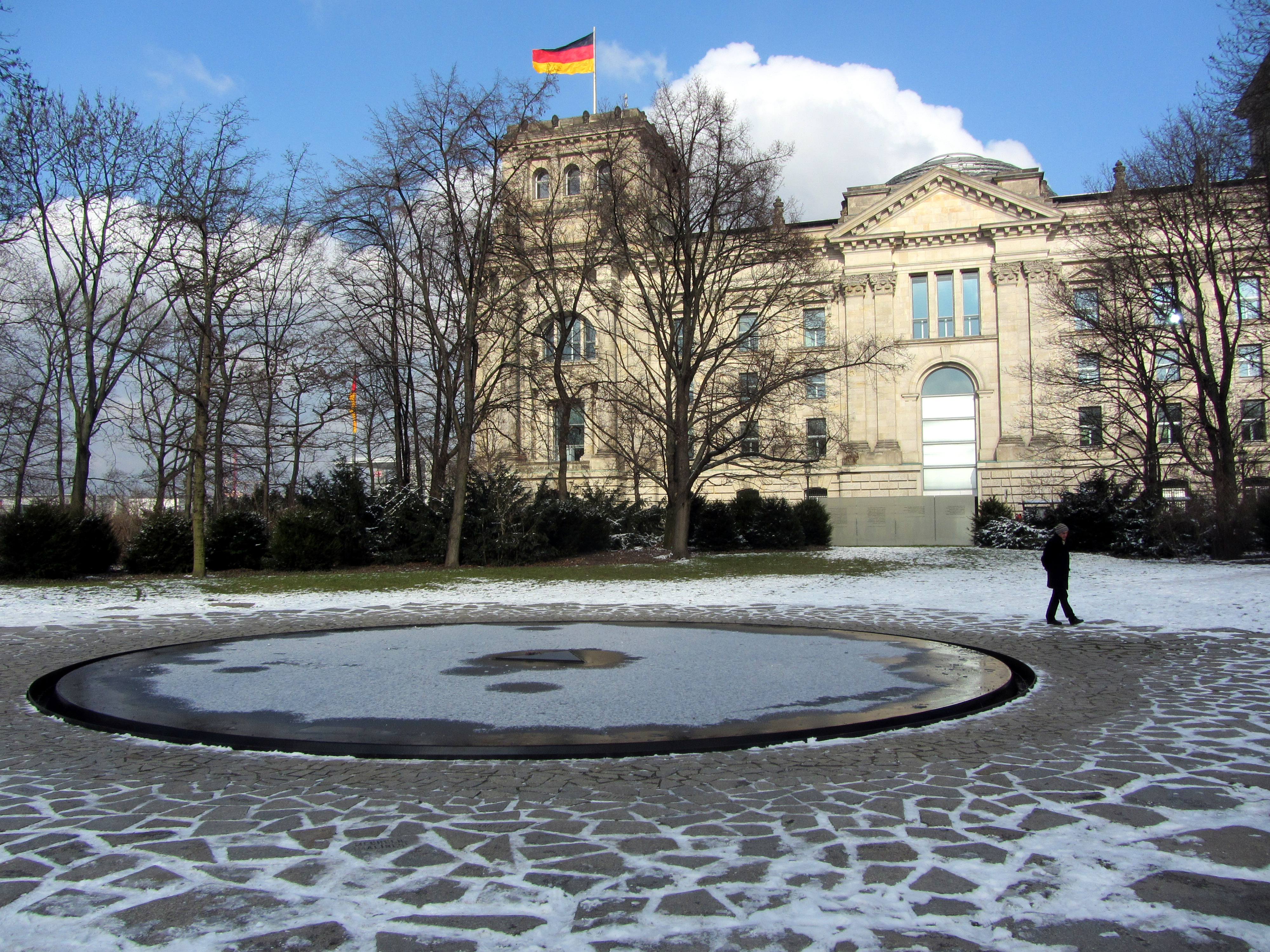 Memorial crosses for victims of the Berlin Wall at Ebertstraße in Berlin. The large cross is for Heinz Sokolowski, who, during an attempt to escape to West Berlin in November 1965, was shot to death nearby.